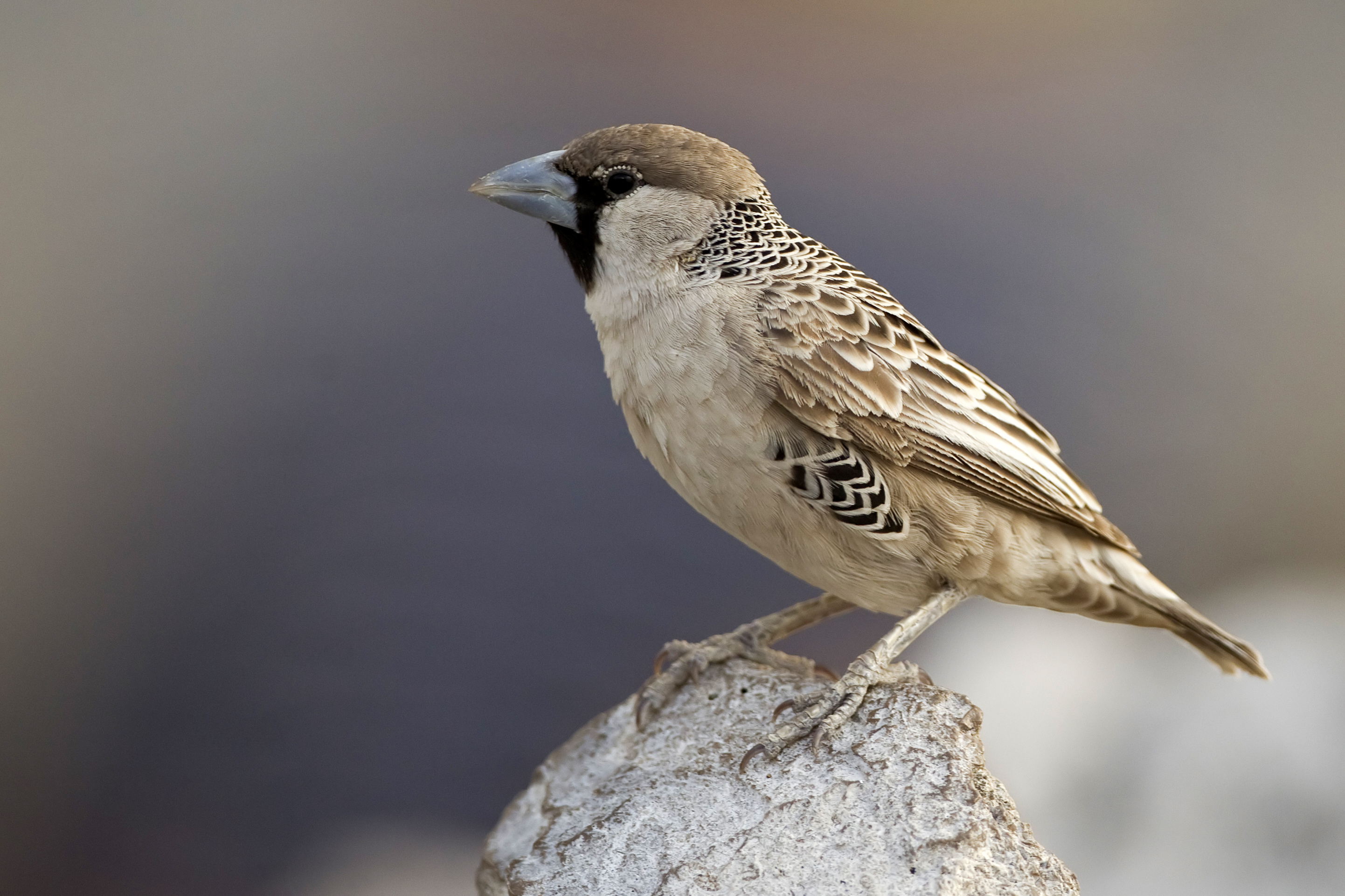 Sociable weaver in Etosha National Park